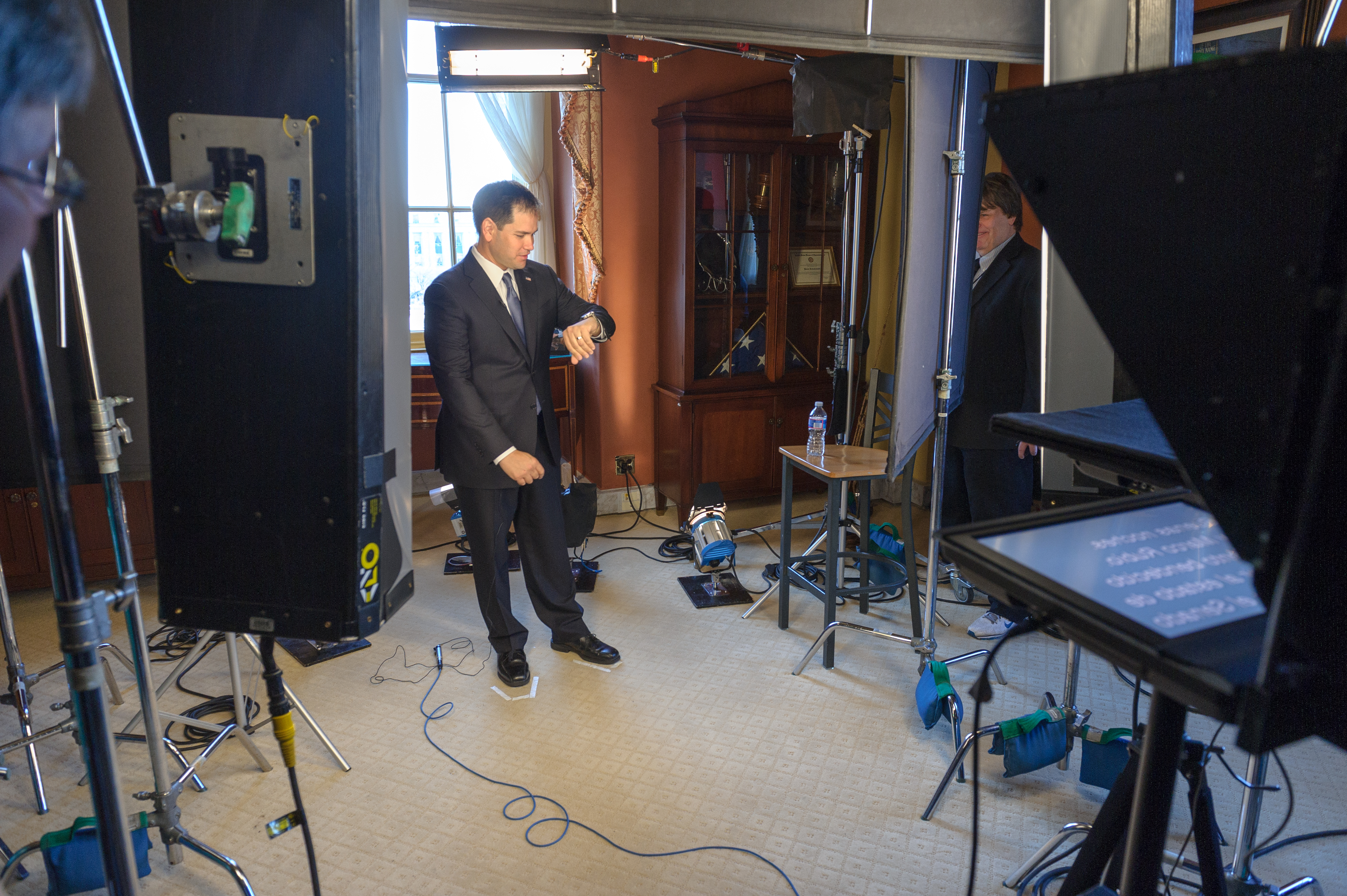 U.S. Senator Marco Rubio preparing in February 2013 to deliver Republican address to the nation